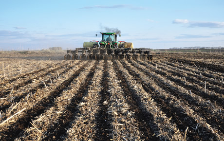 Dawn Pluribus Strip-Till System in the field, running corn into corn in South Central Minnesota.